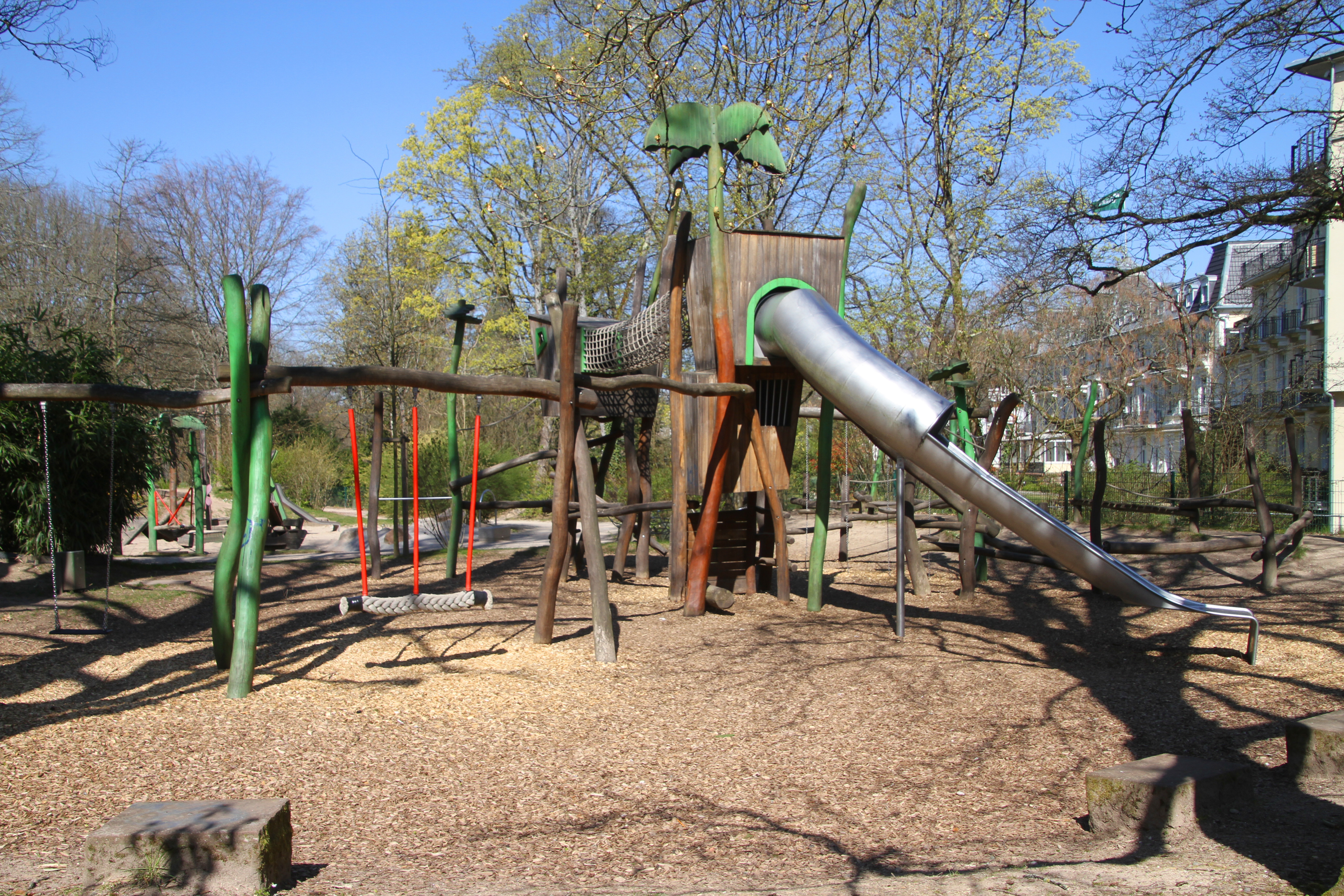 COVID-19 pandemic in Baden-Baden